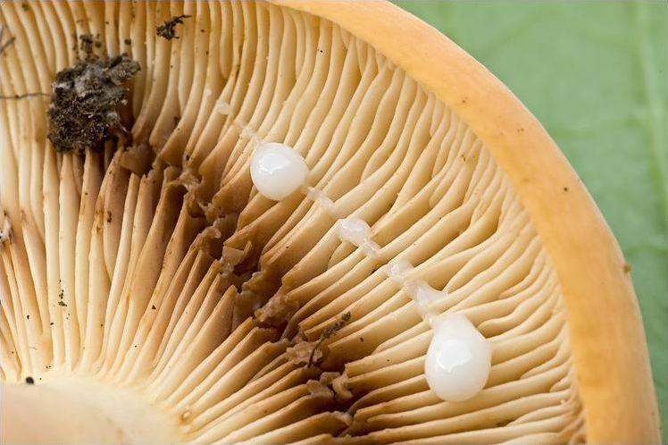 The gills of the mushroom Lactarius volemus (Fr.) Fr., showing the copious white latex, and brown staining reaction.